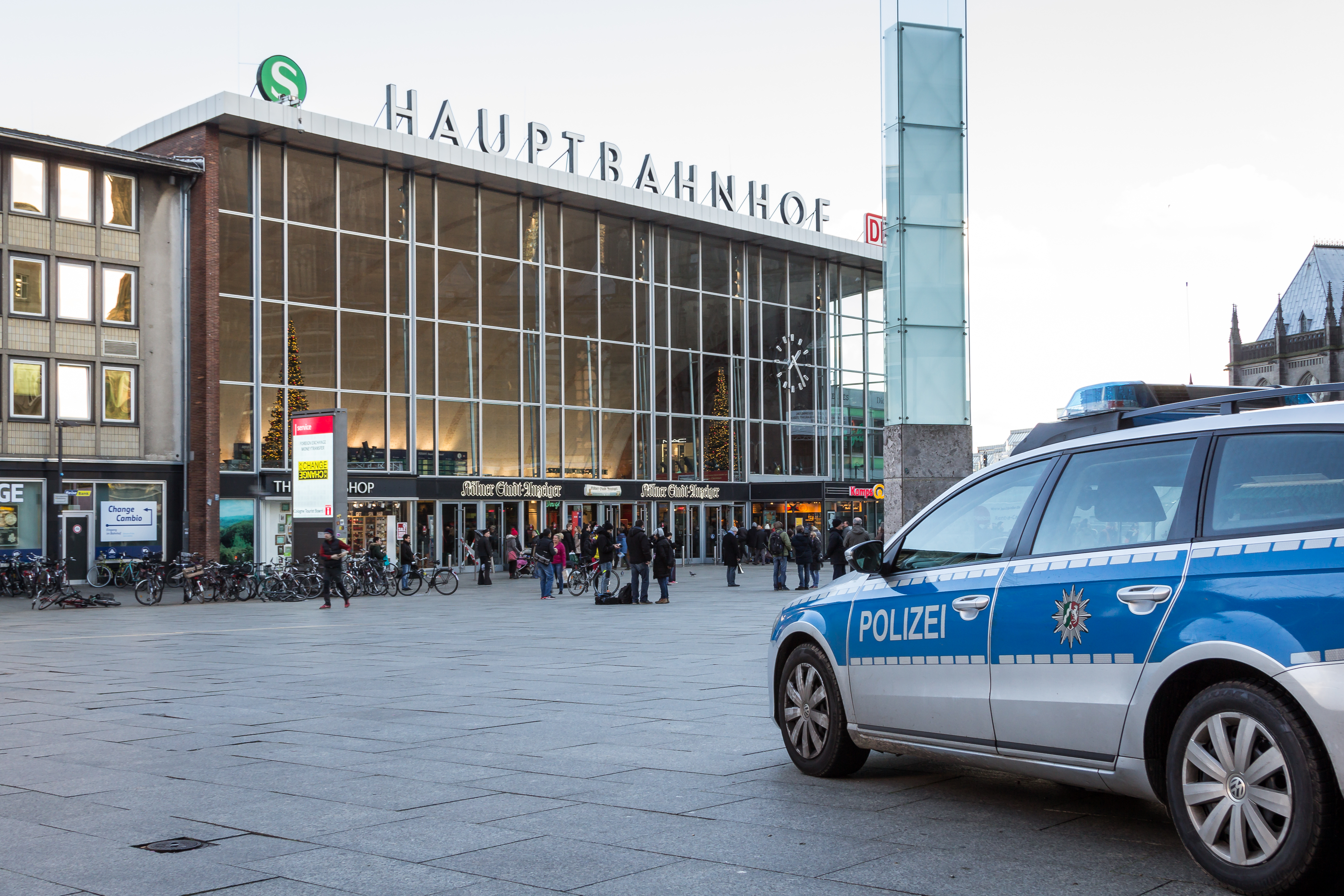 Police automobile in front of Cologne Central Station a week after New Year's Eve 2015 sexual assaults in Germany